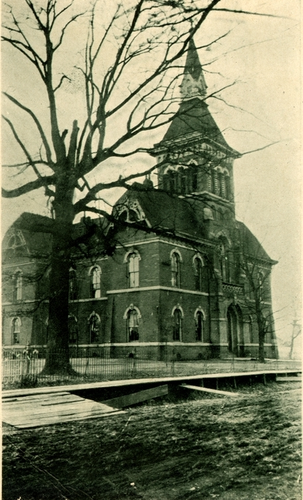 Tate County Courthouse in Senatobia, Mississippi